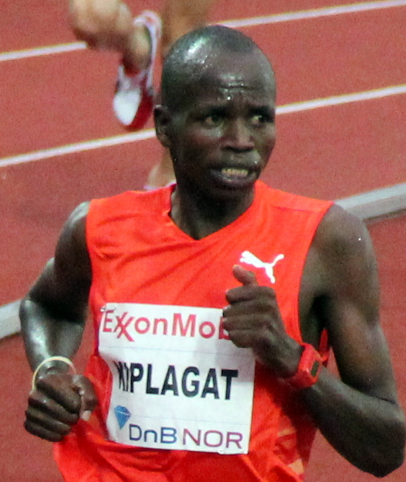 Benjamin Kiplagat the 2011 Bislett Games. (The filename points to the wrong Kiplagat.)